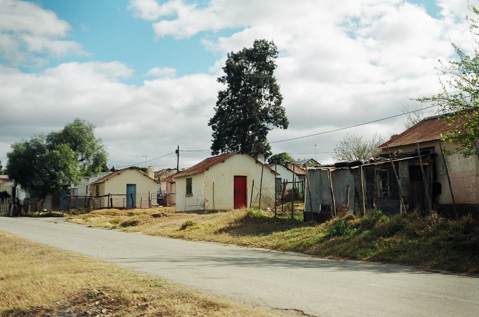 Ginsberg, King William's Town, Eastern Cape, South Africa